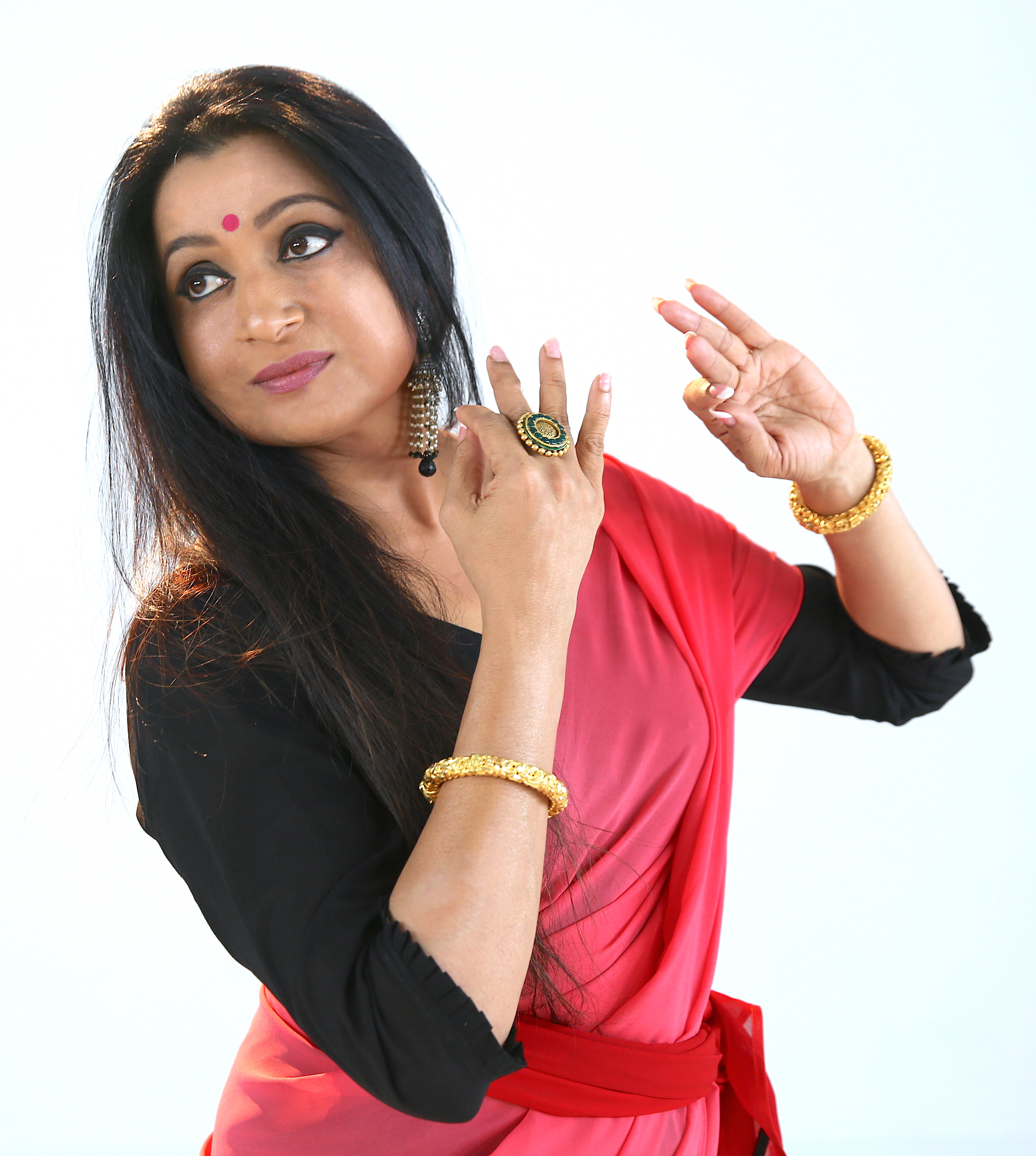 Learn Kathak Online